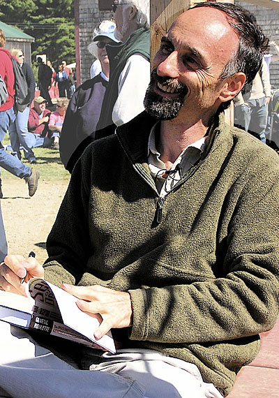 Jeffrey Smith